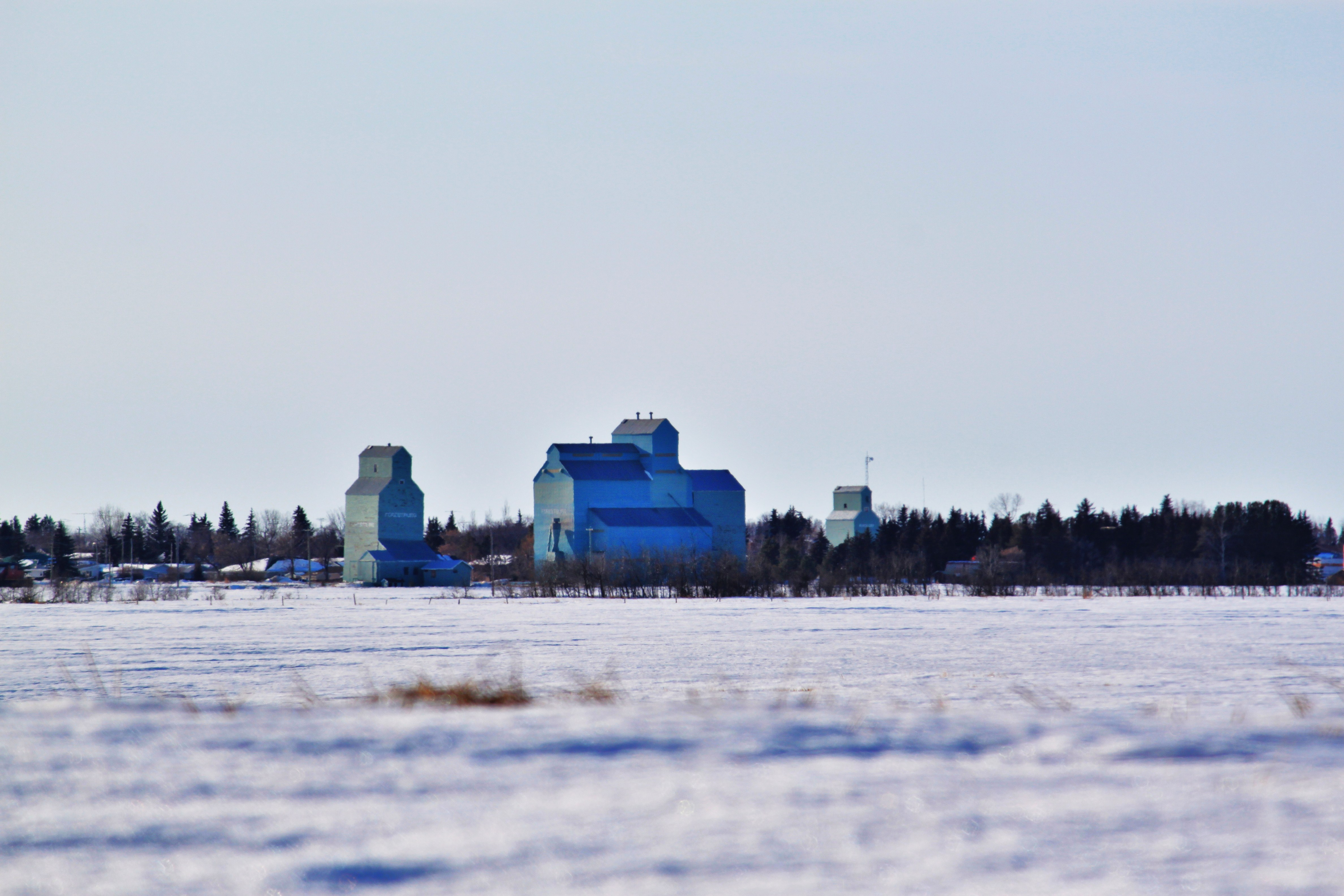 Forestburg, Alberta